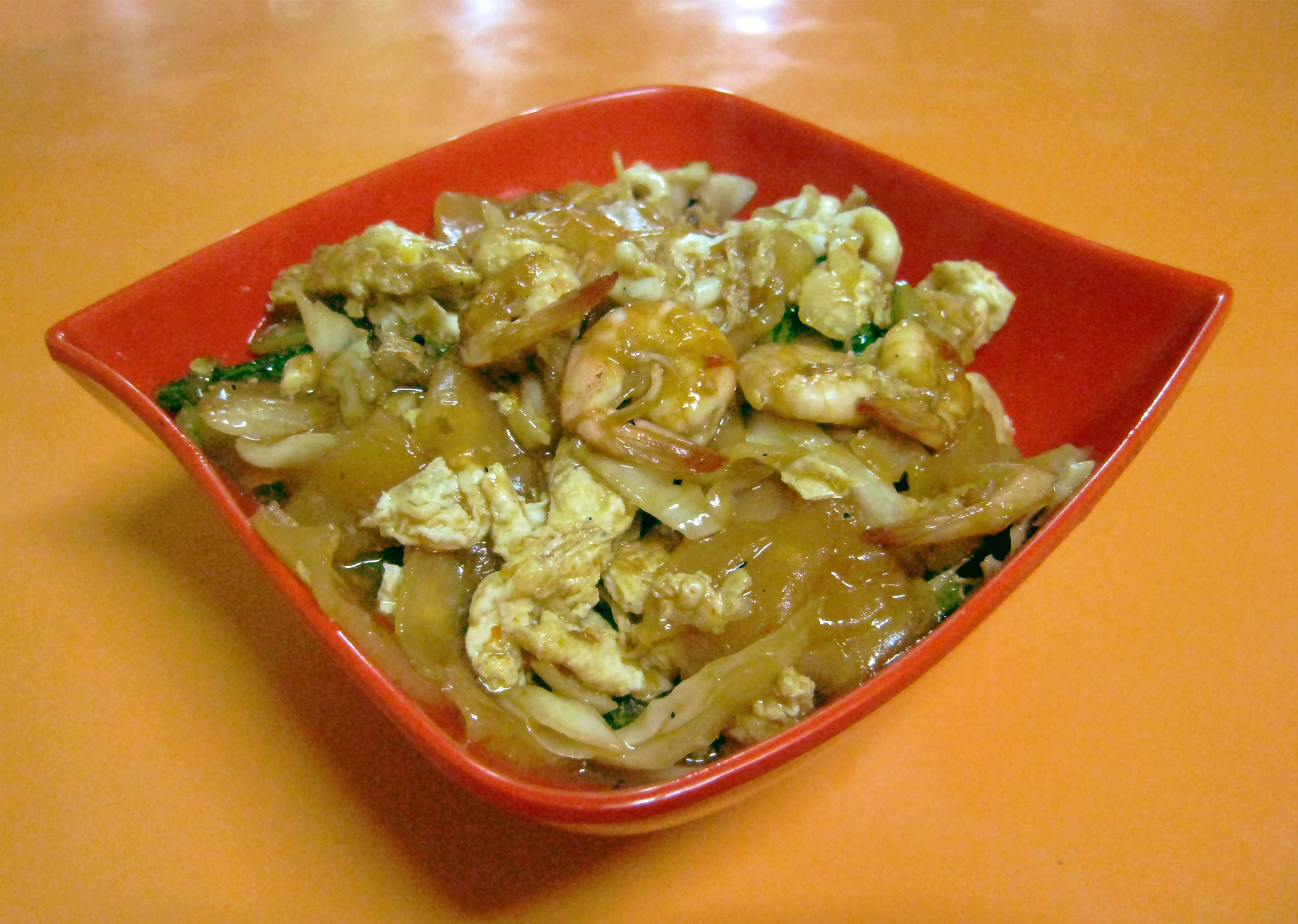 Seblak seafood, a specialty of Bandung city, West Java, Indonesia. Seblak is a savoury and spicy dish made of wet krupuk (traditional Indonesian crackers) cooked with scrambled egg, vegetables, and other protein sources, either chicken, seafood (prawn, fish and squid), or slices of beef sausages, stir-fried with spicy sauces including garlic, shallot, kecap manis (sweet soy sauce), and sambal chili sauce.